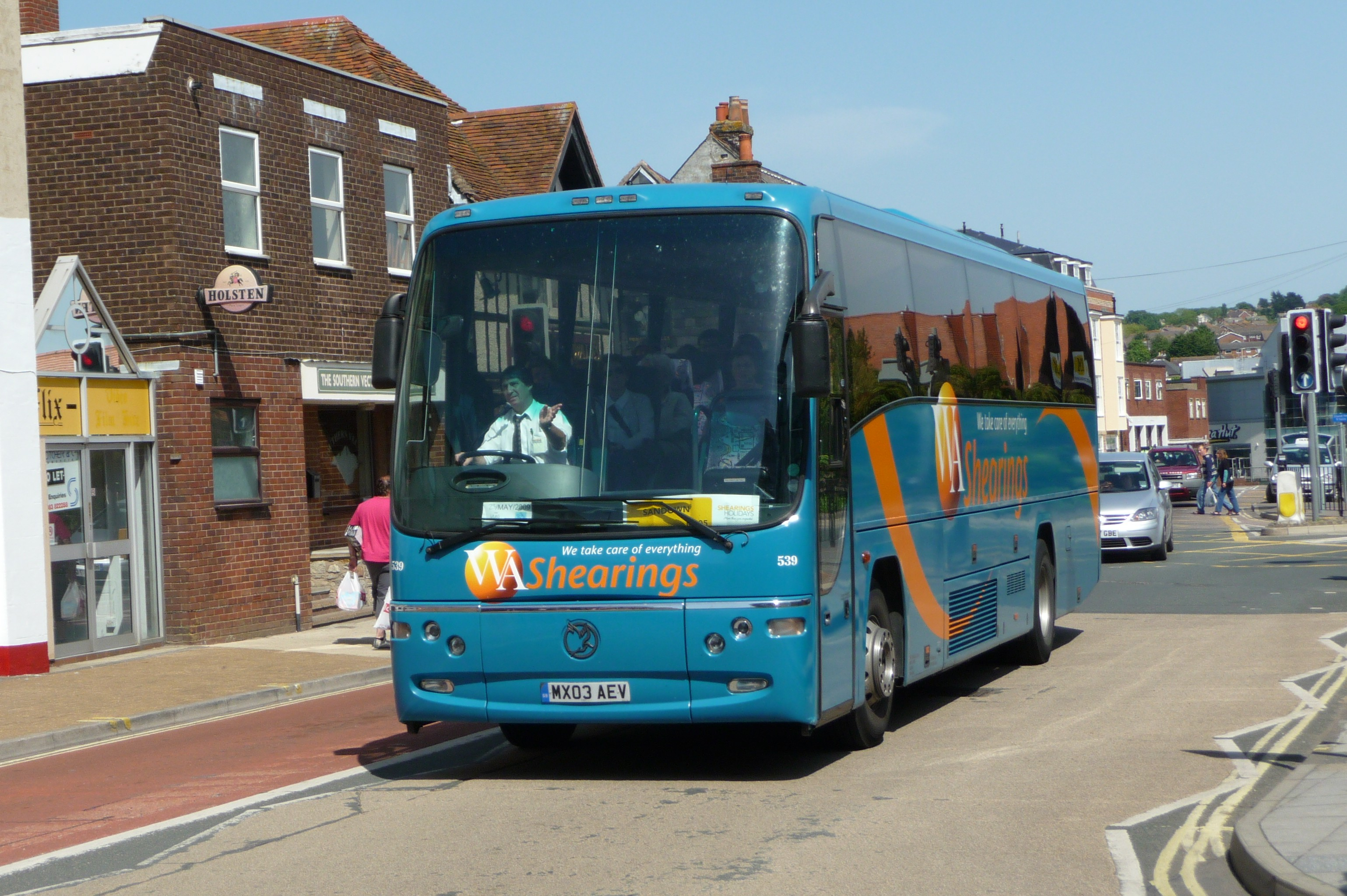 WA Shearings 539 (MX03 AEV), a Volvo B12M/Plaxton Panther, in South Street, Newport, Isle of Wight, on a coach holiday tour.